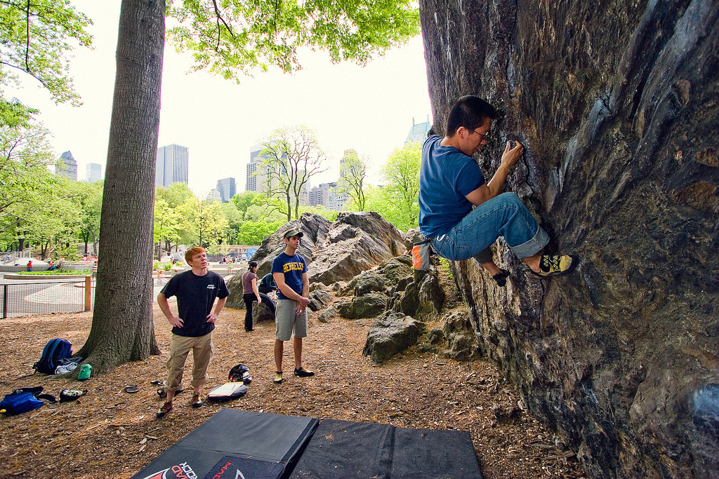 Looking east at Boulderers at Rat Rock in Central Park, NYC, New York, USA. One of the popular bouldering sites in Central Park.